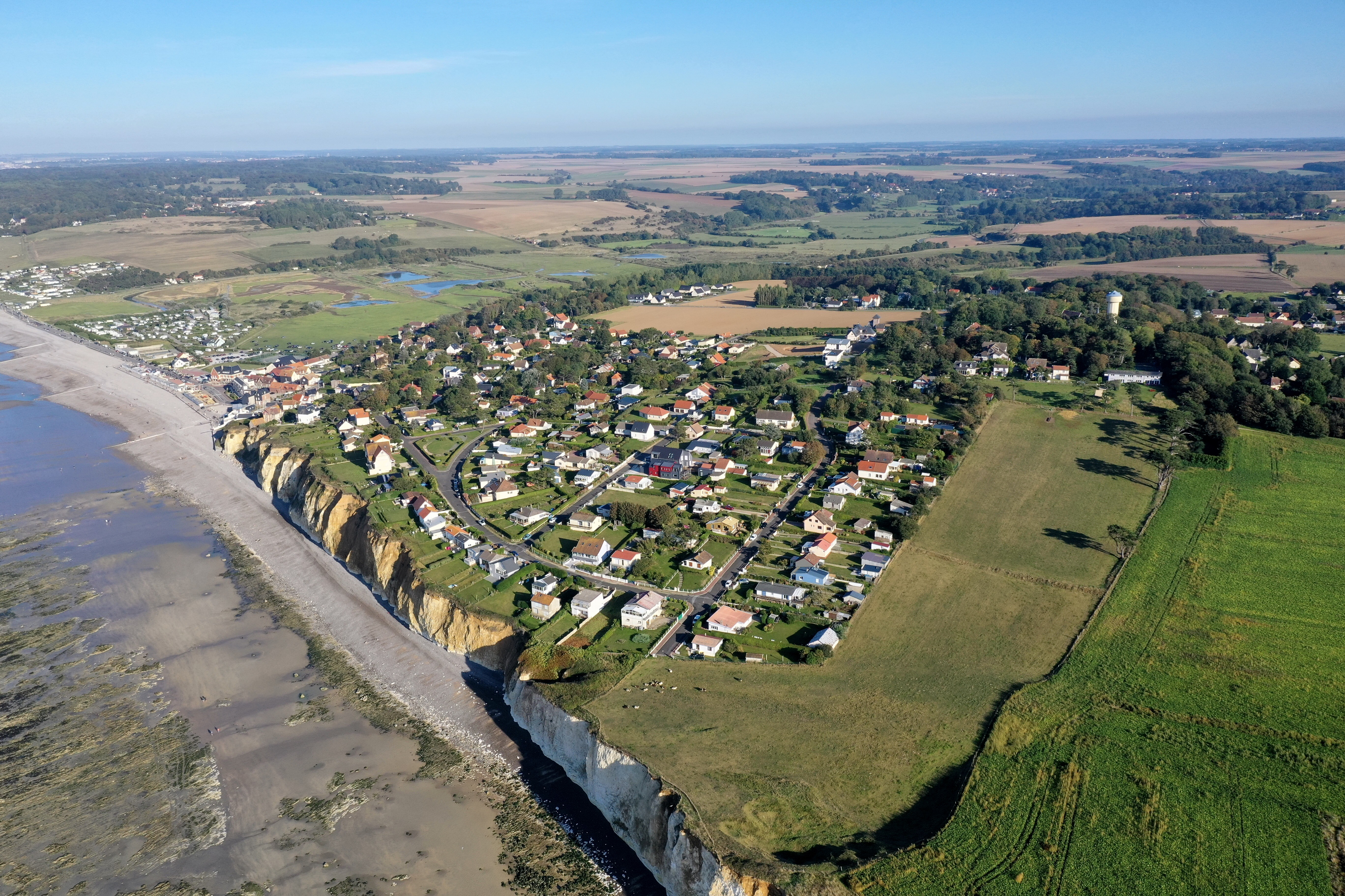 Quiberville, Normandy, France – Aerial photograph from the west, 2019